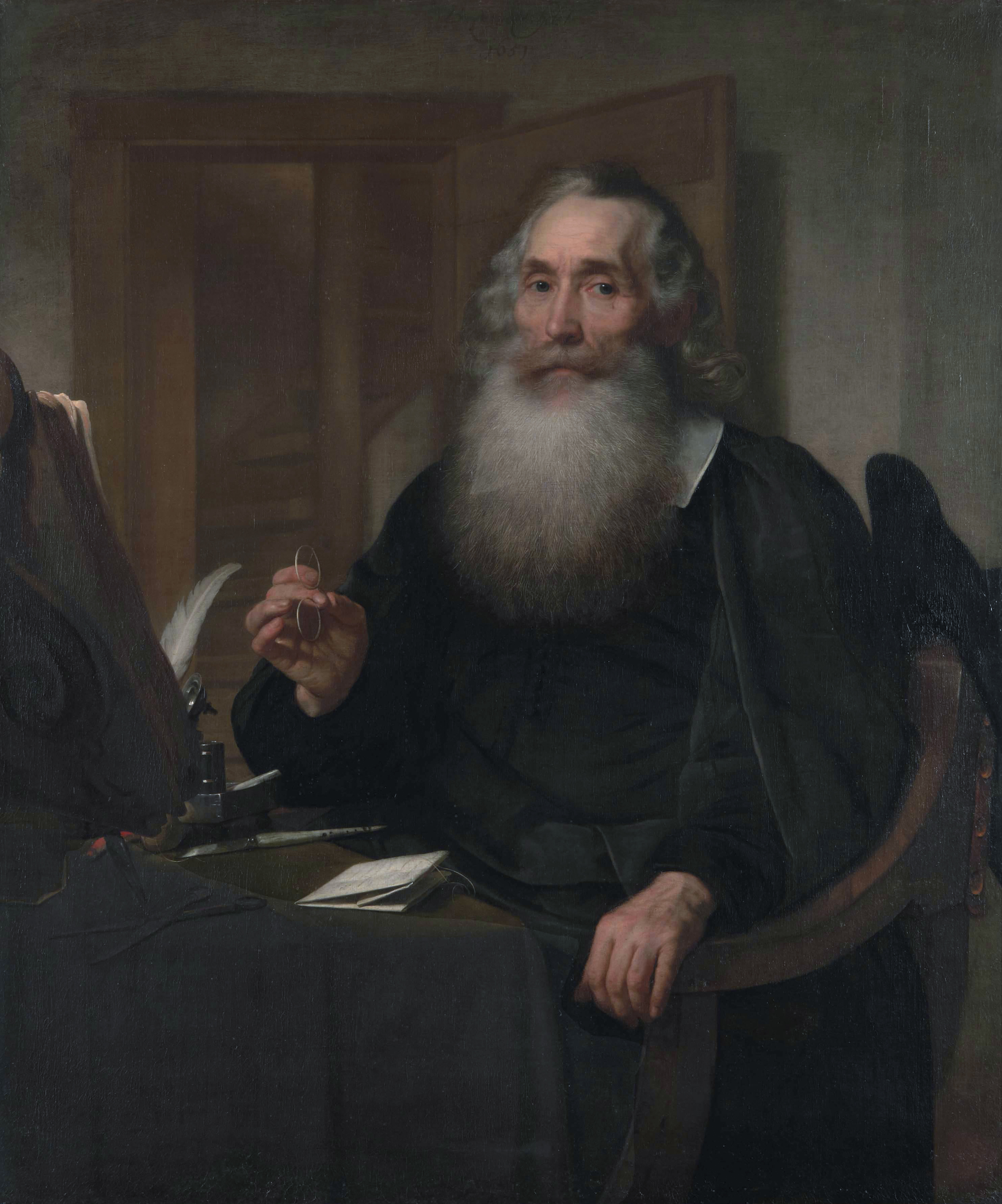 Petrus Scriverius oil on canvas 115,2 × 98,5 cm signed t.c.: B. van der helst. / 1651